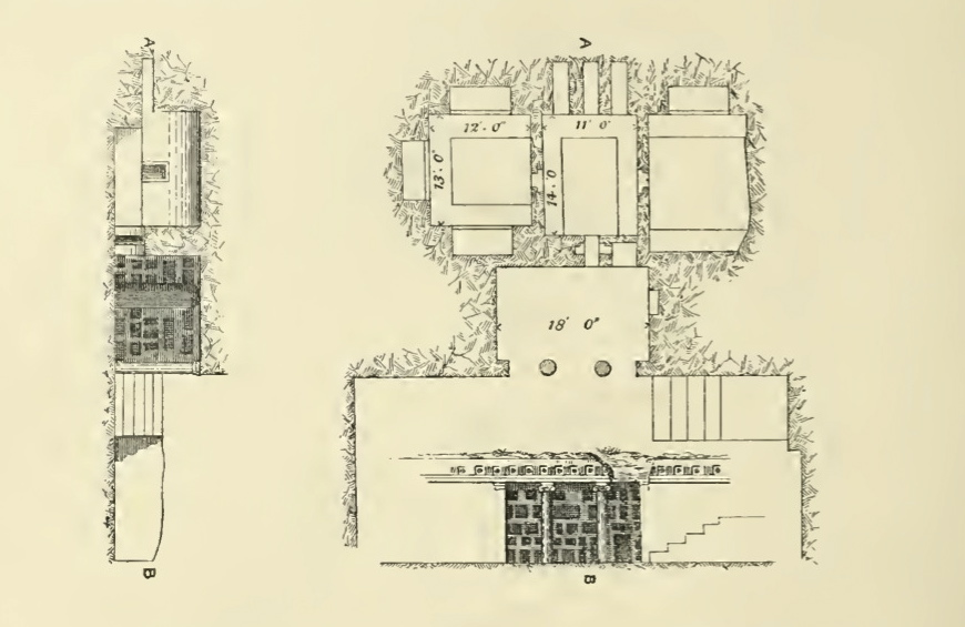 Qarawat Bani Hassan, West Bank, Palestine